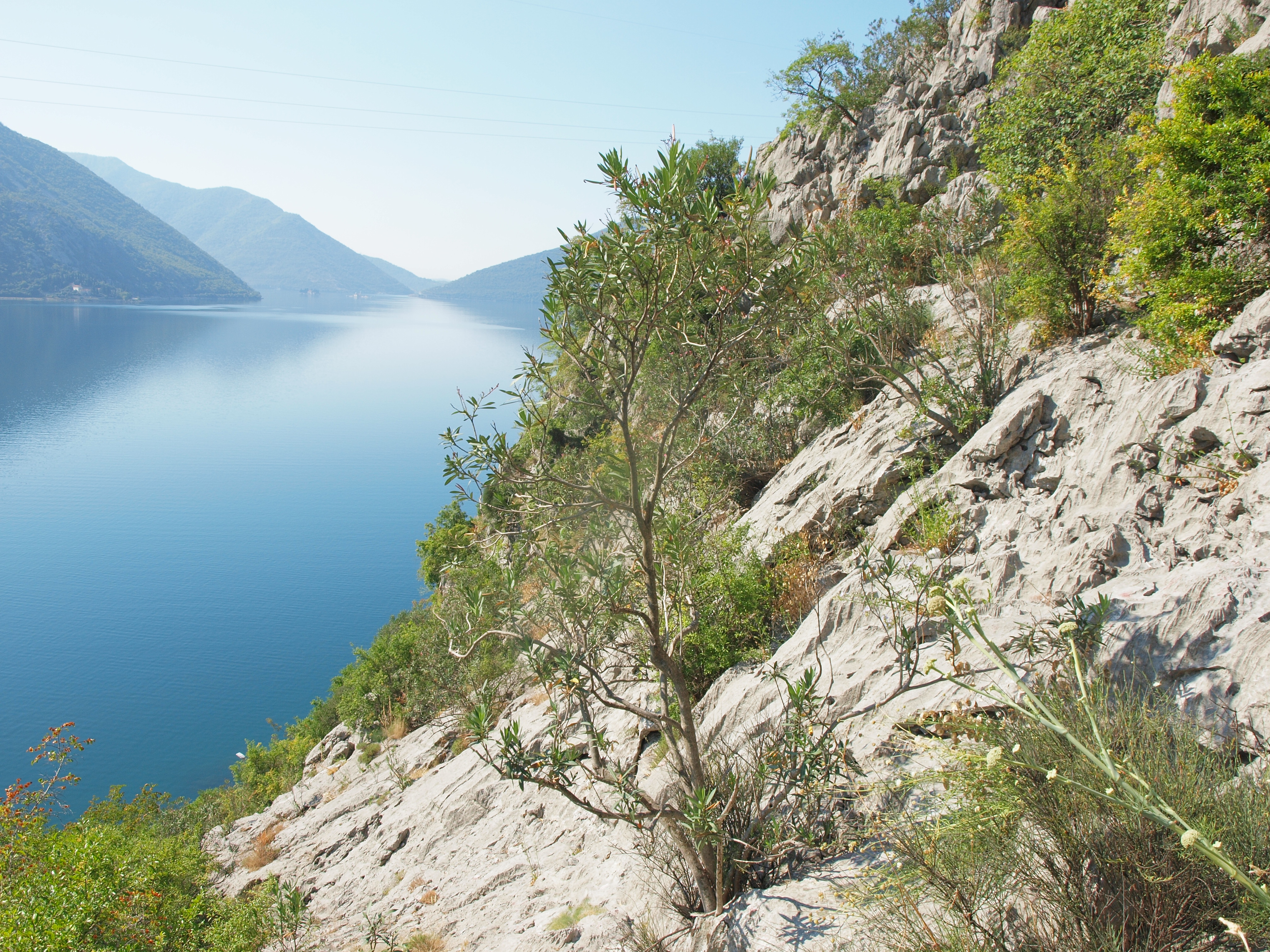 Nerium-oleandri association, Bay of Risan, Montenegro